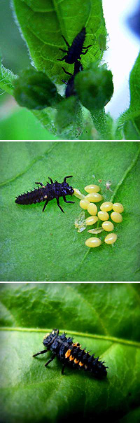 Three stages of larvae of Harmonia axyridis, the first one with aphids and the second one eating eggs of Coccinellidae sp.